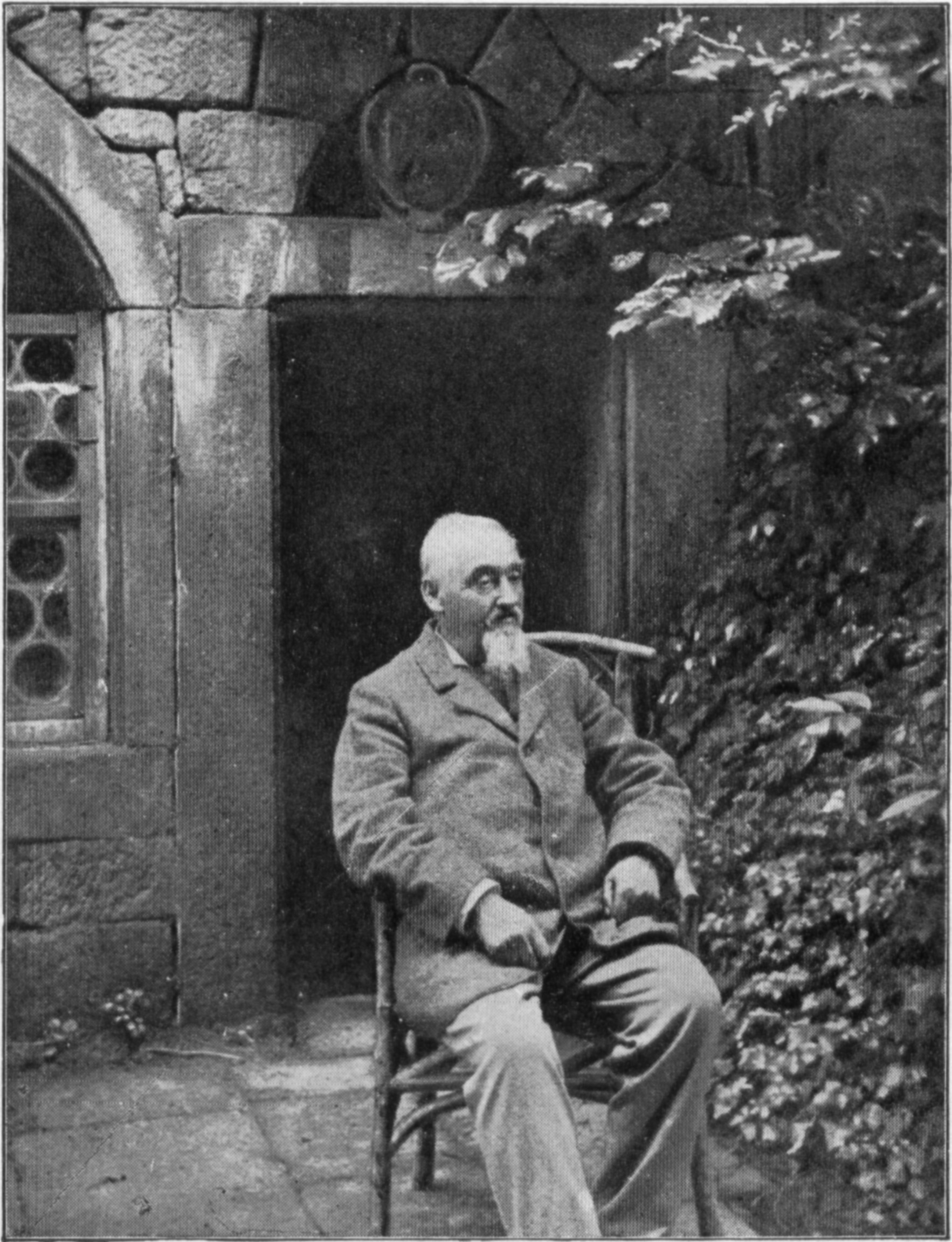 Theobald Kerner